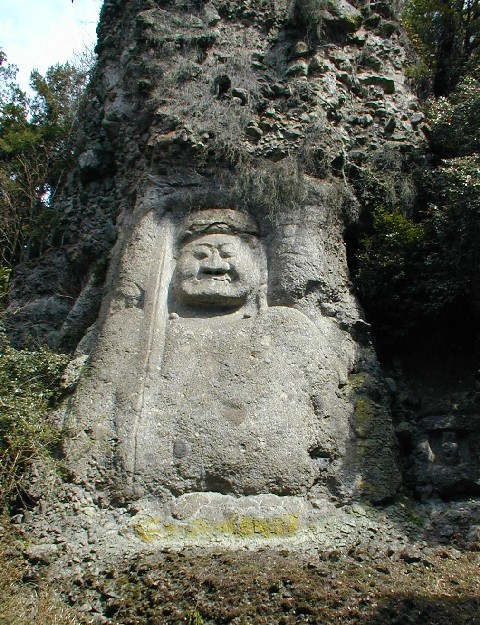 Kumano Stone Buddha, Bungo-Takada, Oita